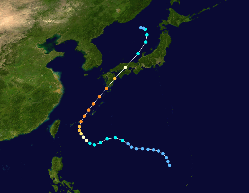 Typhoon Yancy 1993 track. Uses the color scheme from the Saffir-Simpson Hurricane Scale.